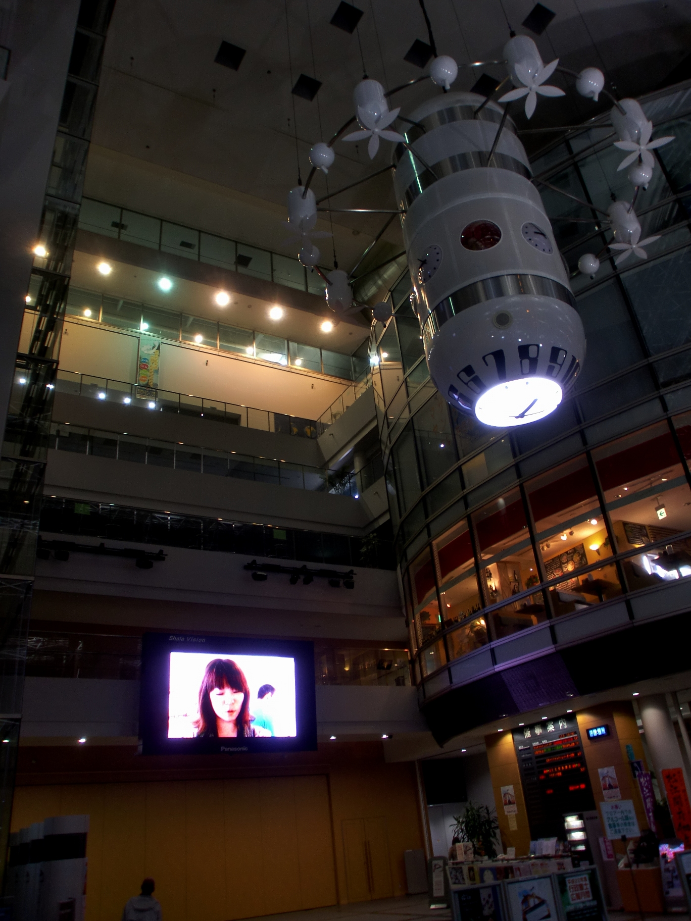 Matsue Terrsa